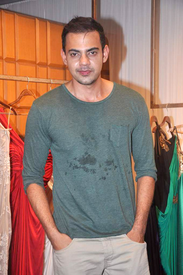 Cyrus sahukar